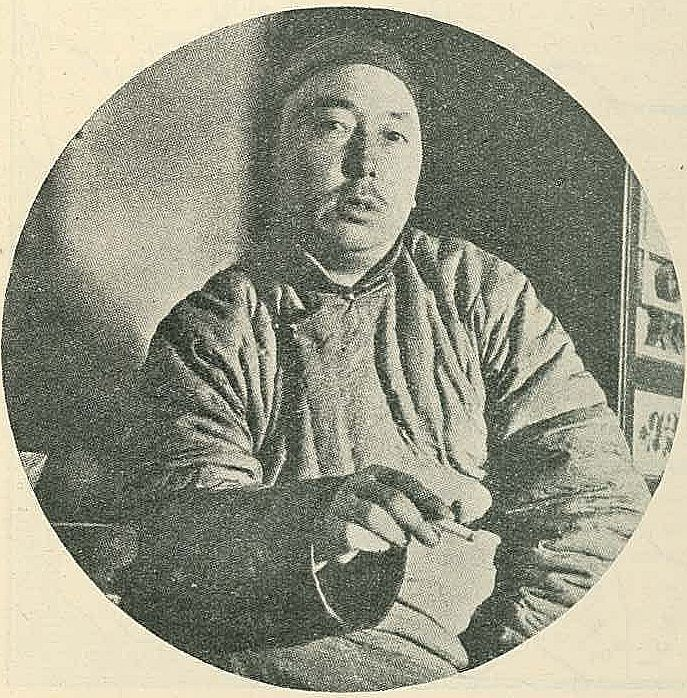 Prince Demchigdonrov of Inner Mongolia.